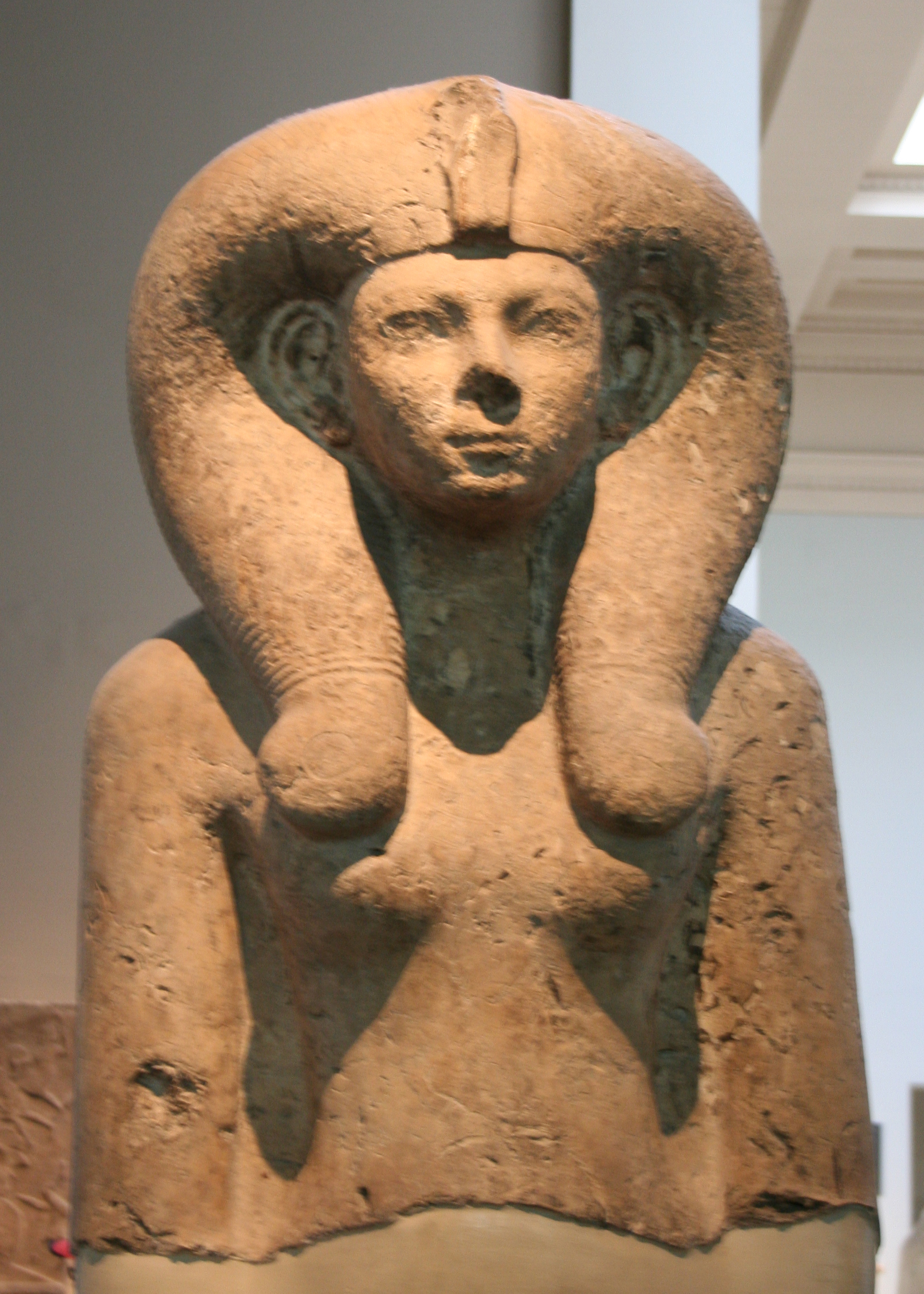 British Museum, London